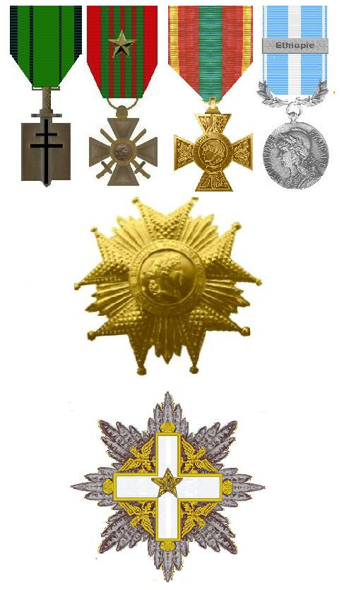 Three medals of Gaston Palewski